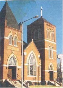 Third Presbyterian Church in the 1980s